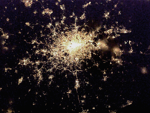 Nighttime satellite photo of London shows it lighting up the surrounds like a star.